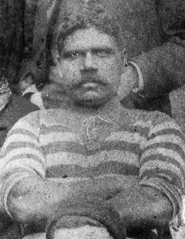 Harry Hewitt from the Southern football team photo, an annual match played between the North and South regions of Adelaide (c. 1894).